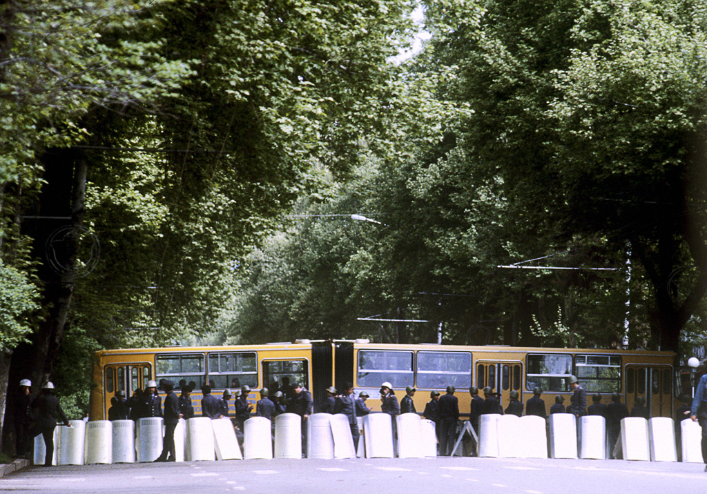 “Police cordon separates rallies at Shakhidon and Ozodi squares”. The proclamation of independence in Tajikistan was followed by an entho-religious armed conflict for power in the country.